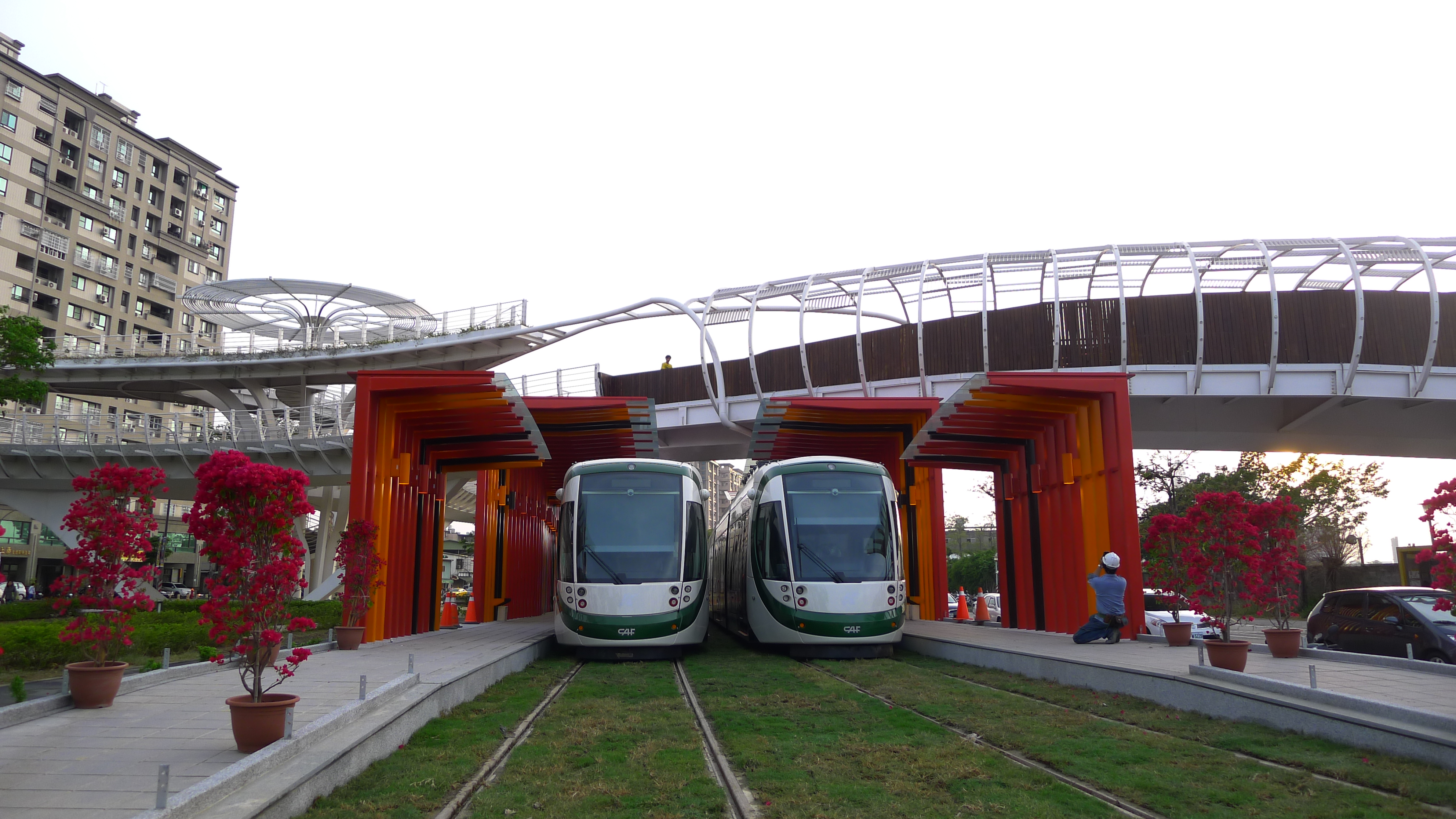 Star-of-Cianjhen Bike Bridge and the LRT Station of the same name (Star of Cianjhen Station, KMRT Circular Line)